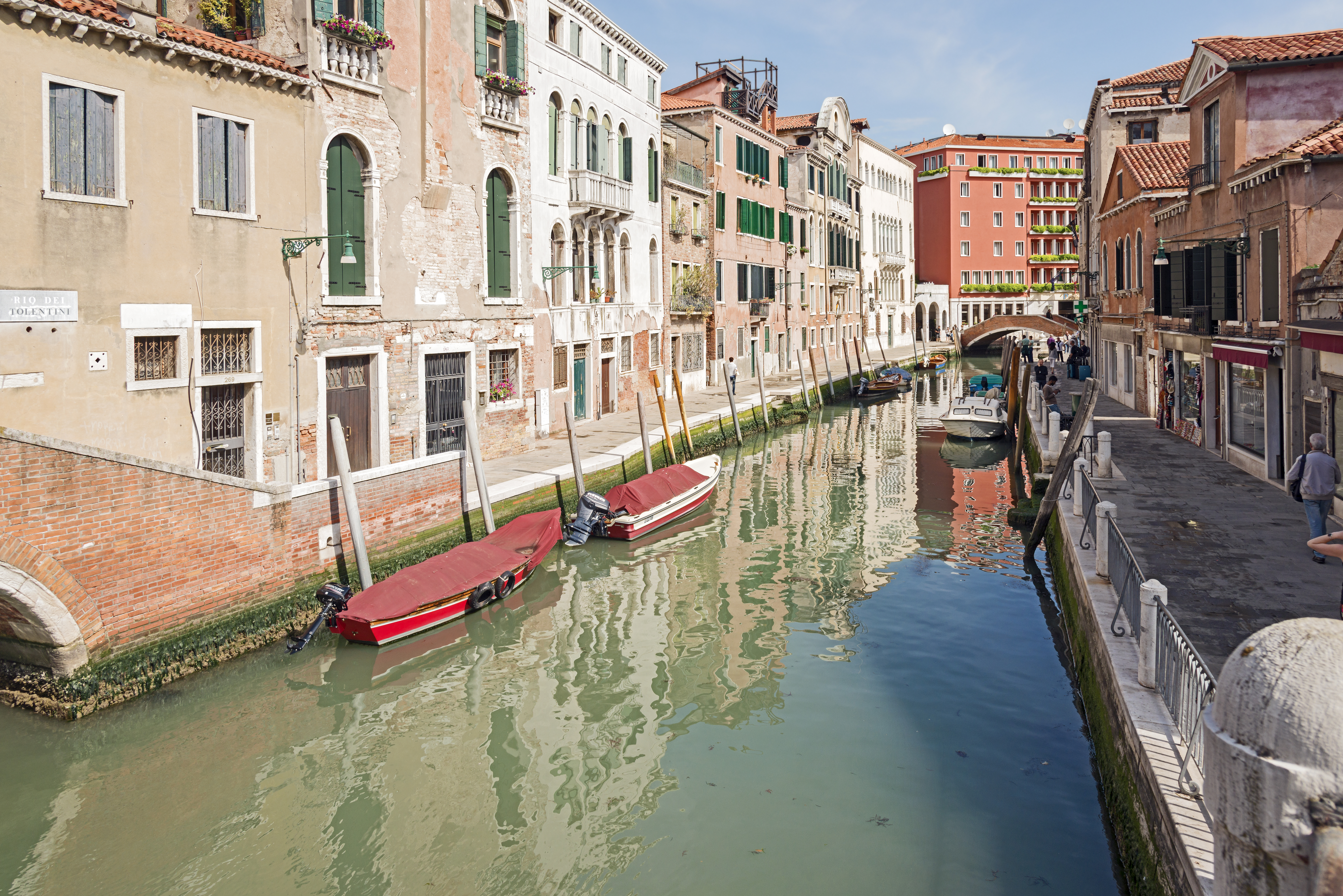 Rio dei Tolentini to Venice. View from Ponte del Gaffaro.